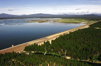 Wickiup Dam and Wickiup Reservoir are in the Deschutes National Forest south of Bend, Oregon; the dam was completed in 1949 and is maintained by the Bureau of Reclamation